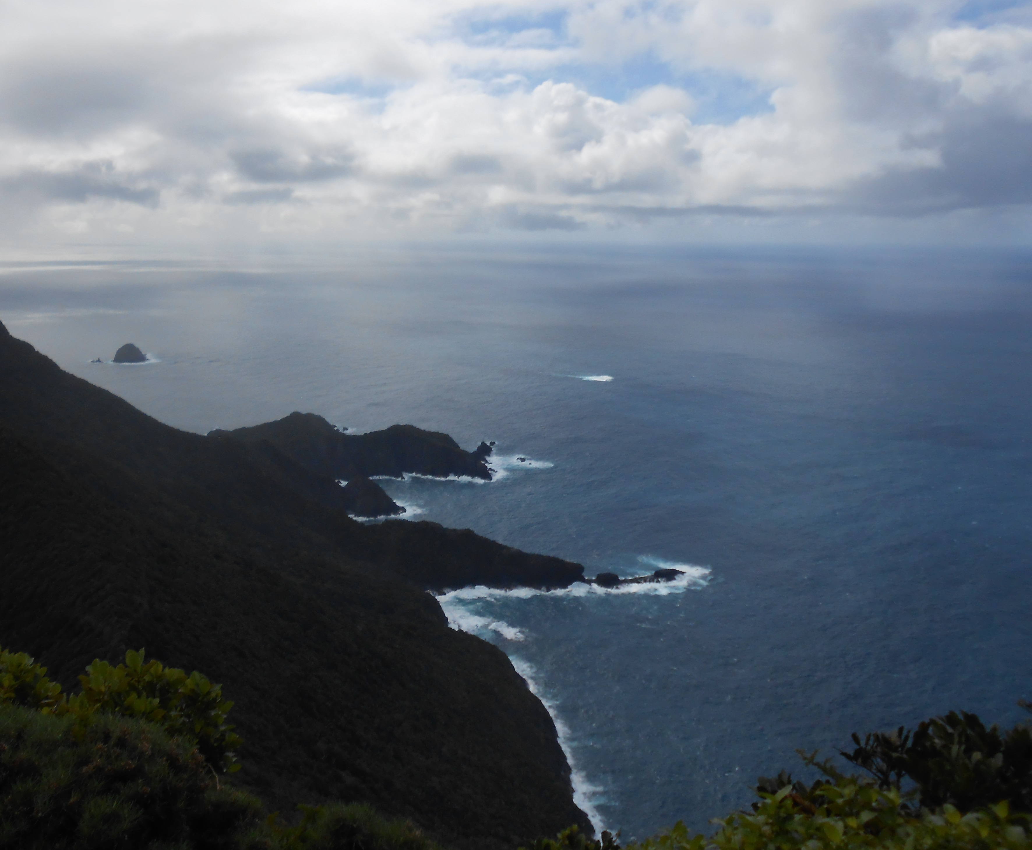 Wolf Rock - East Of Lord Howe Island. Struck by HMS Nottingham, 7 July 2002